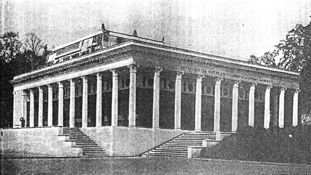 "Dinamo" metro entrace. Moscow.